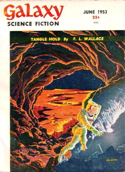 Cover of Galaxy, June 1953